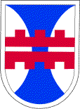 412th Engineer Command Soulder Sleeve Insignia